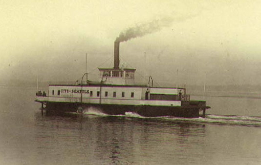 The steam ferry City of Seattle circa 1901